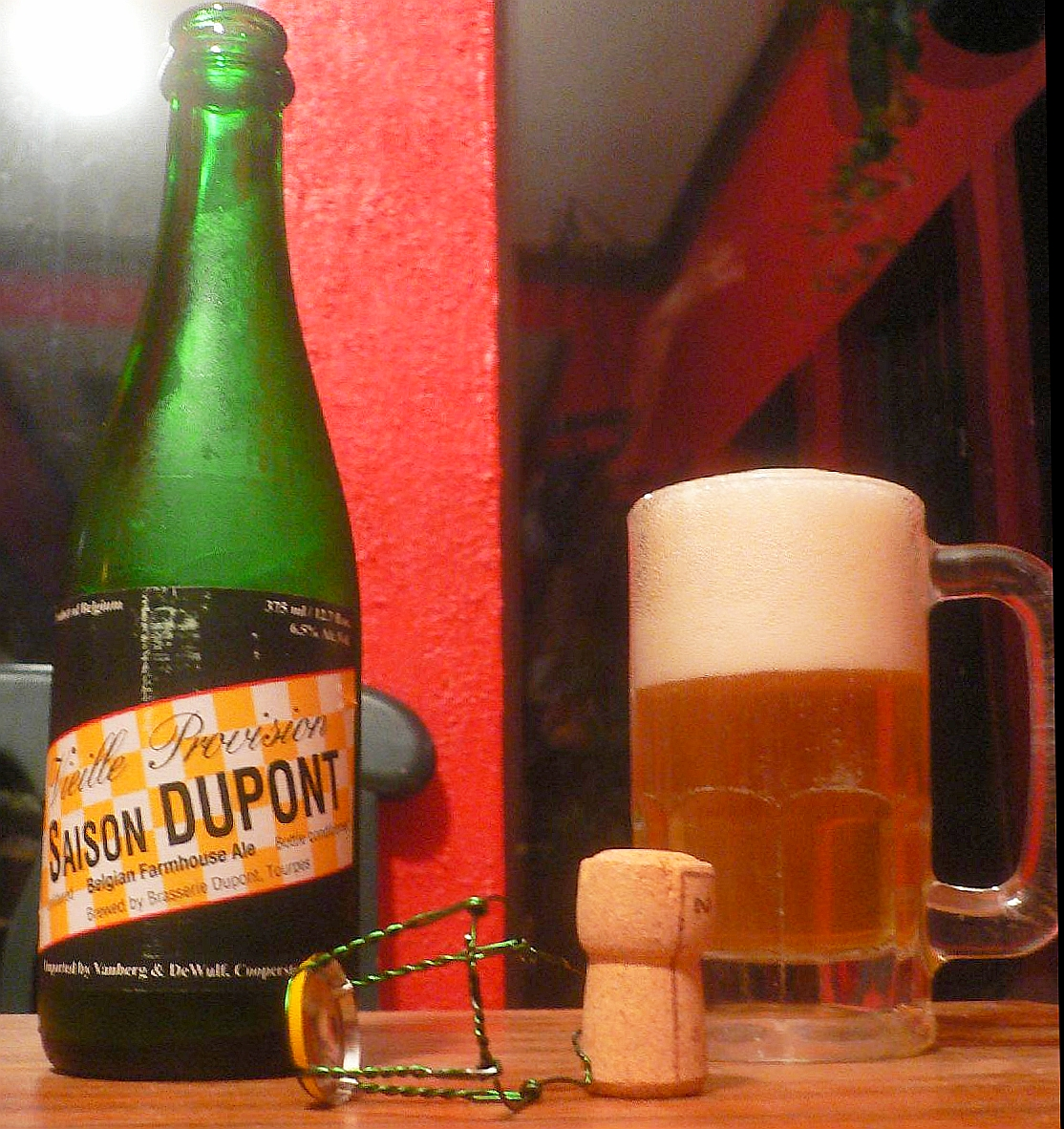 A bottle of Saison Dupont and glass